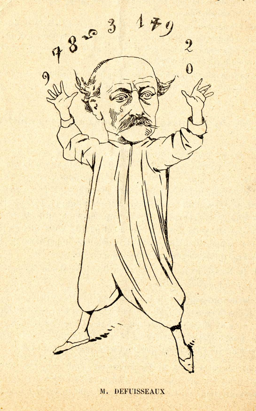 Cartoon depicting Mr Alfred De Fuisseaux (°1843 +1901) as a figure juggling with figures. Part of a pamphlet to criticise his manipulation of work accidents statistics to advocate for his left-wing, pro-worker cause.